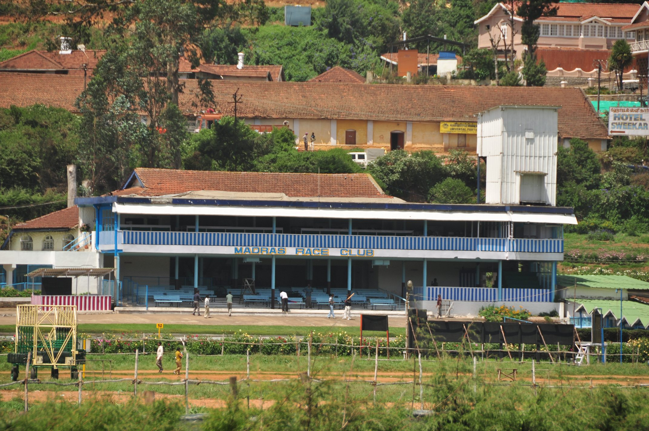 Horse Race club of Ooty, TamilNadu